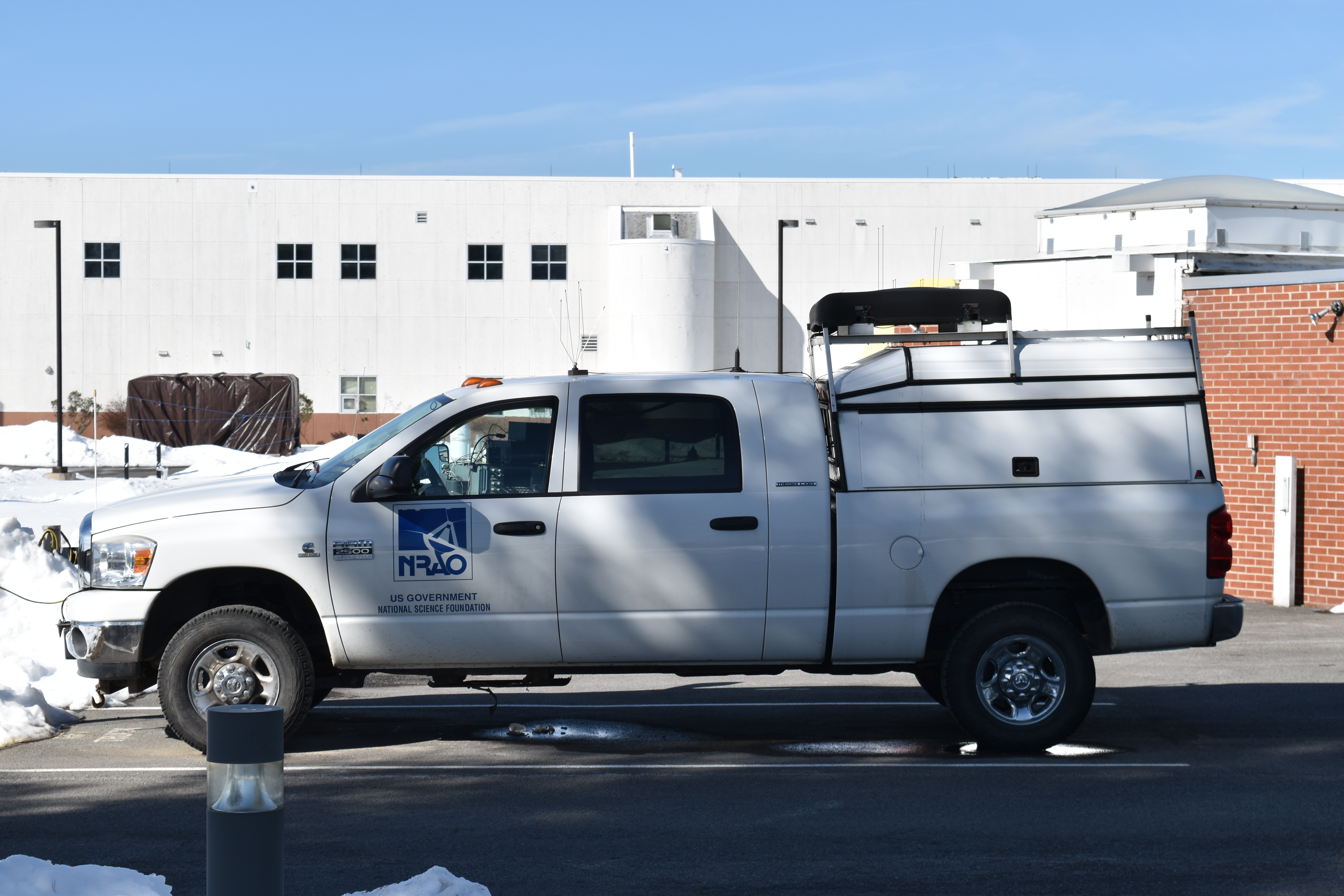 NRAO modern patrol truck